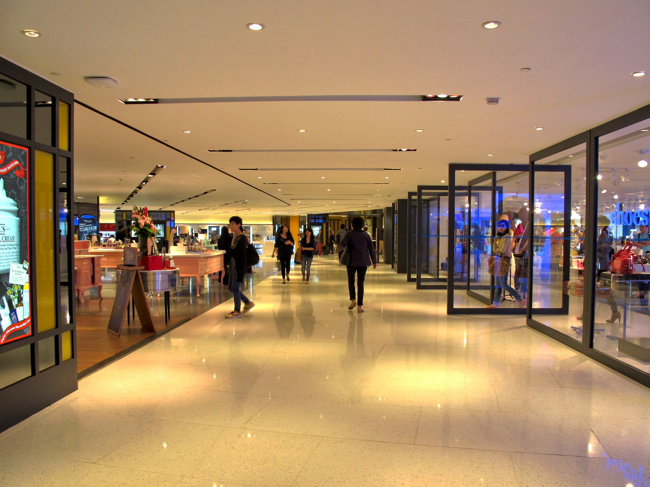 Queensway Plaza LAB Concept